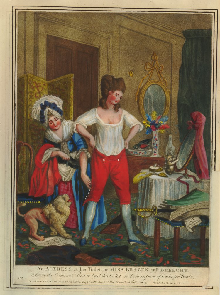 1779 John Colley Playbill of an actress dressing in breeches